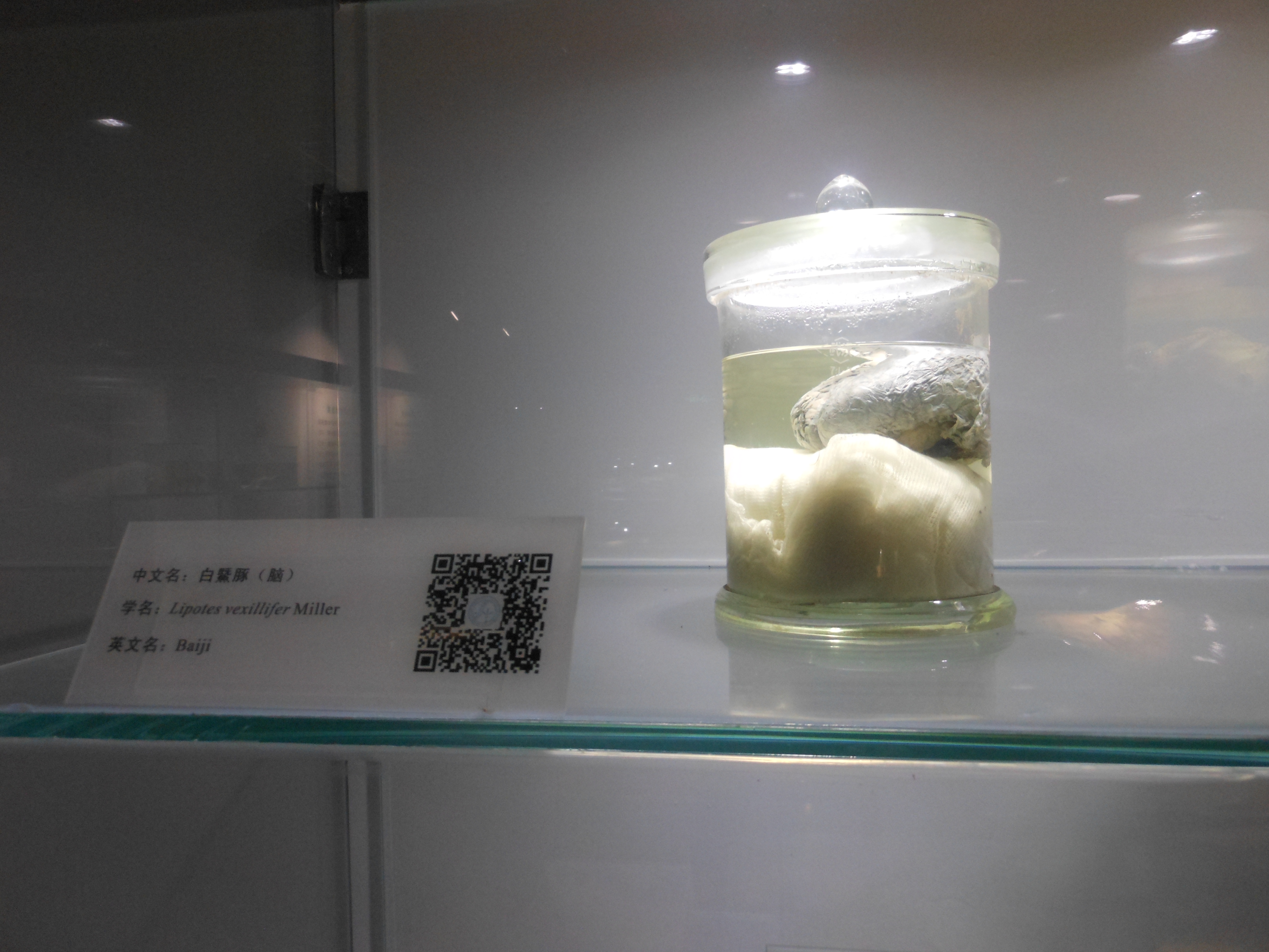 This is a specimen of the brain of Lipotes vexillifer (Baiji Dolphin), which is exhibited in the Museum of Hydrobiological Sciences, Wuhan Institute of Hydrobiology of Chinese Academy of Science. Detailed information of the specimen is little-known.